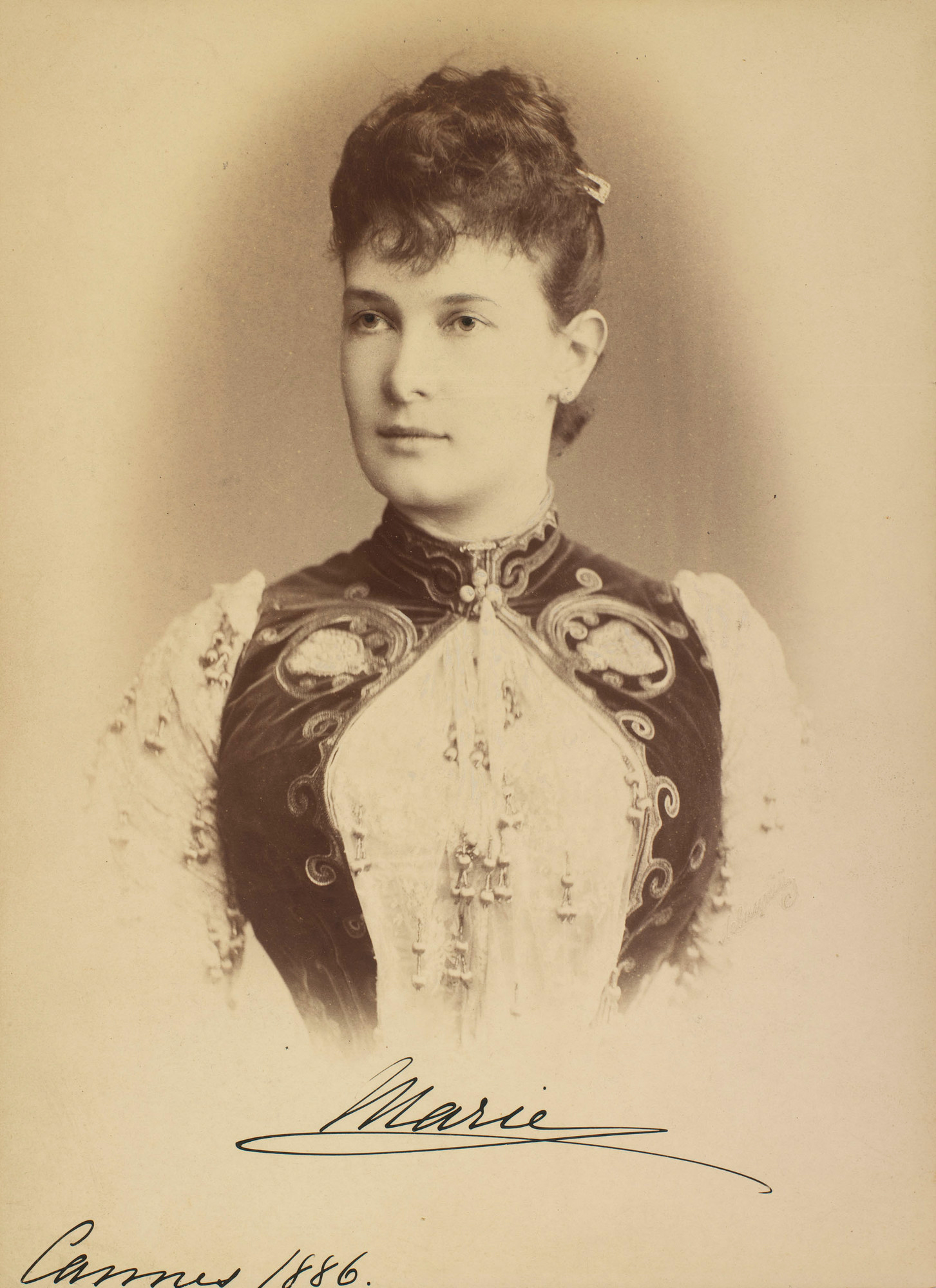 Grand Duchess Maria Pavlovna (1854-1920)